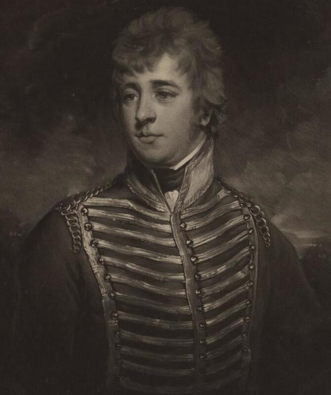 A portrait from the Welsh Portrait Collection at the National Library of Wales. Depicted person: Sir Watkin Williams-Wynn, 5th Baronet – Welsh politician